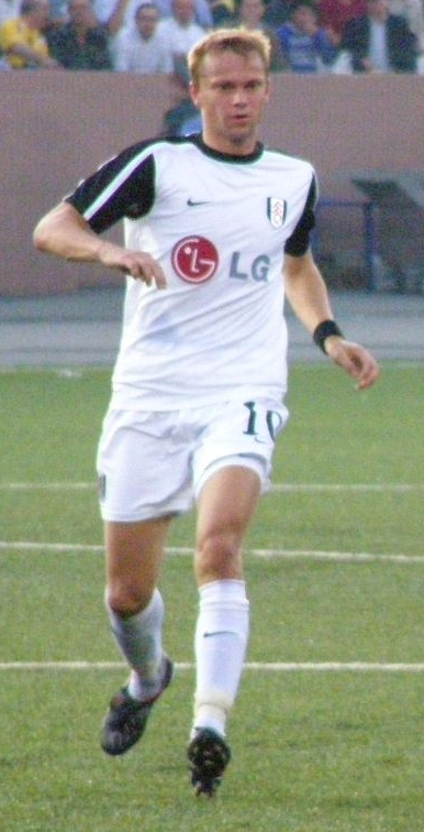 Erik Nevland in action for Fulham F.C.